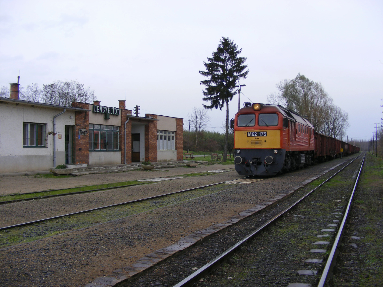 Sugar beet train of tthe MÁV Cargo in Lengyeltóti